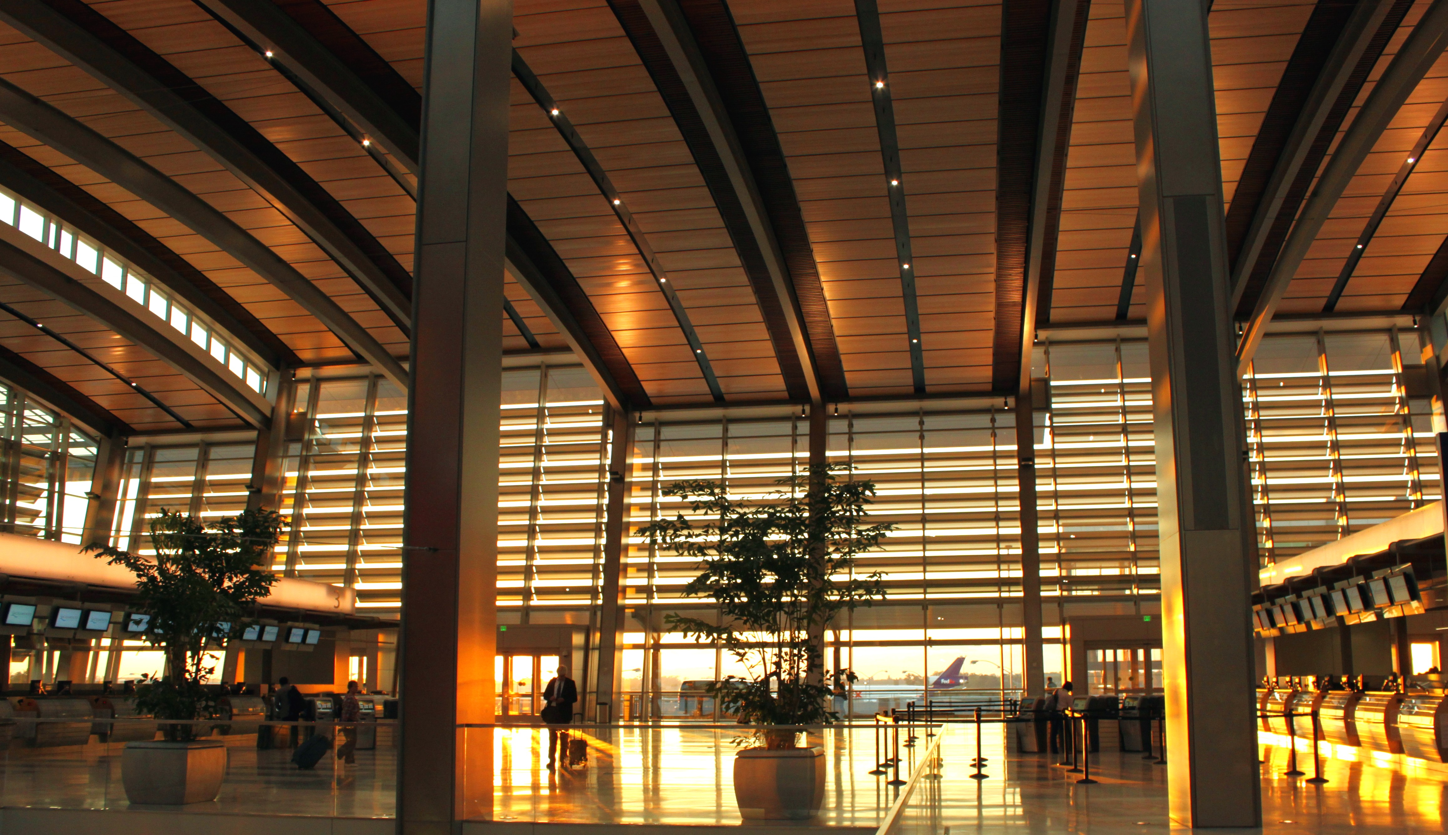 Sacramento Airport, California